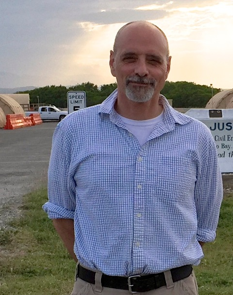 Author Eric Schlosser